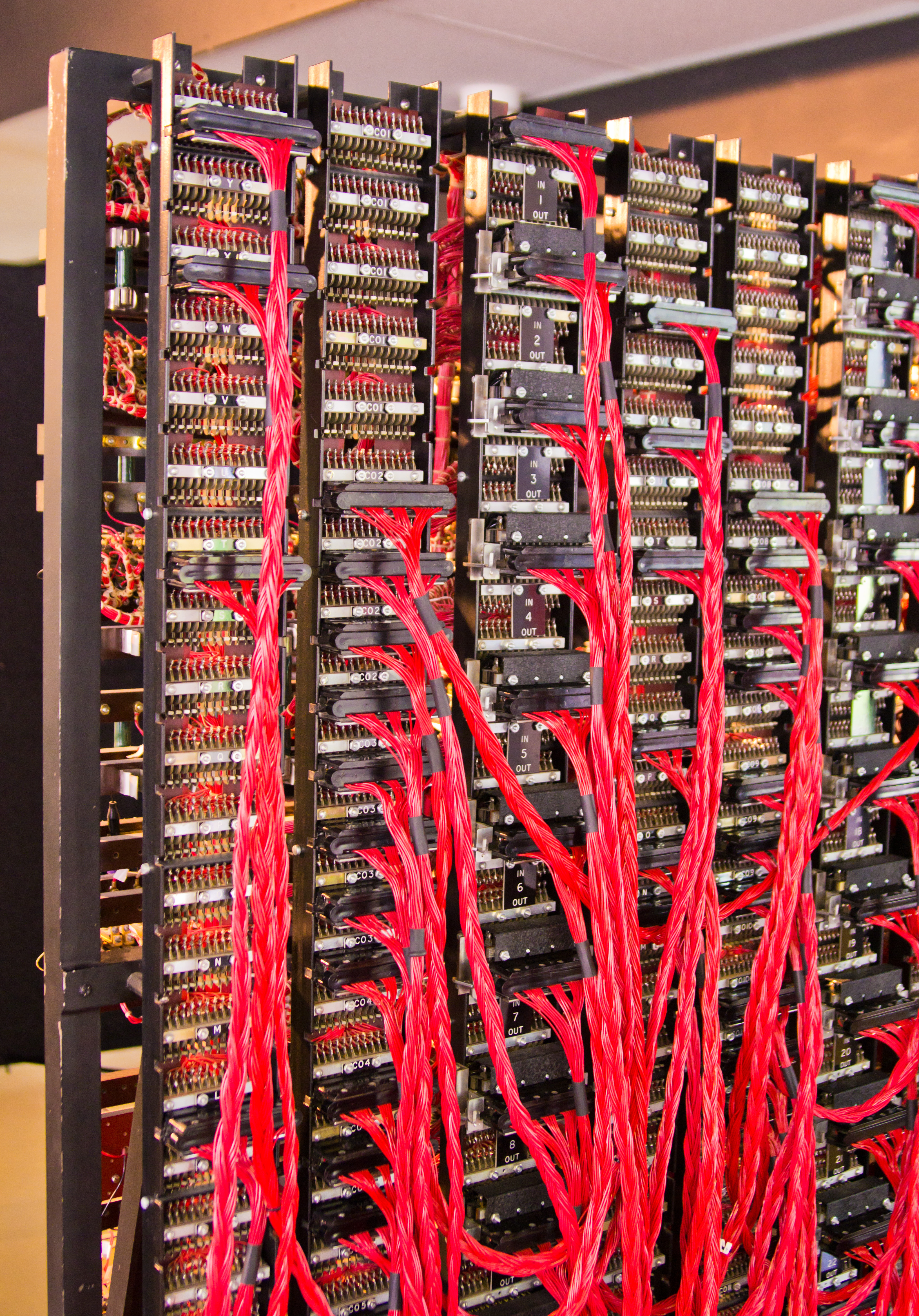 Bletchley Park Bombe (replica of the original Bombe)